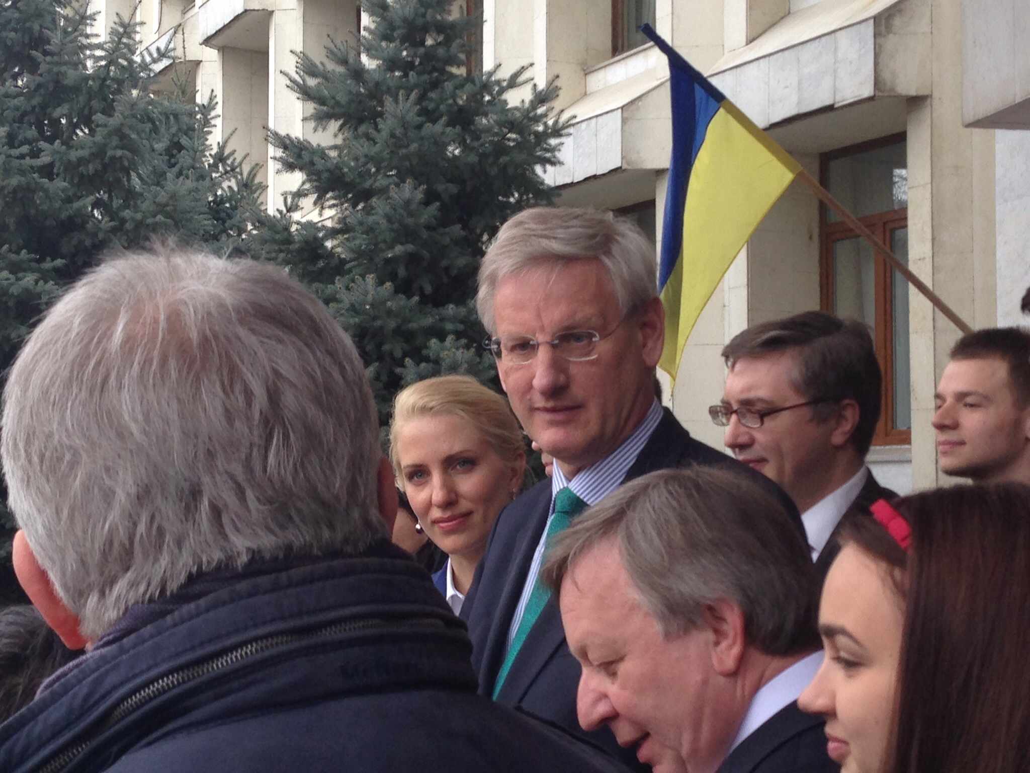 Carl Bildt in the Institute of International Relations of Taras Shevchenko National University of Kyiv